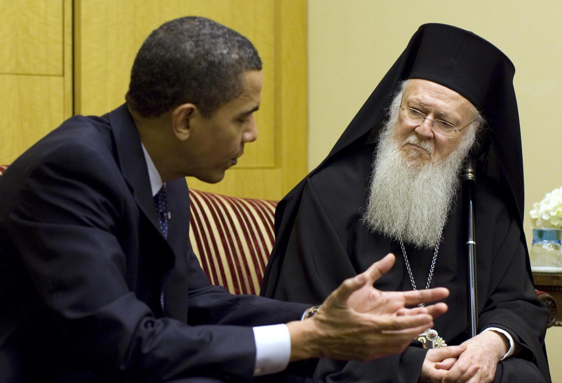 President Barack Obama meets Tuesday, April 7, 2009, with Greek Orthodox Ecumenical Patriarch Bartholomew during their meeting in Istanbul.